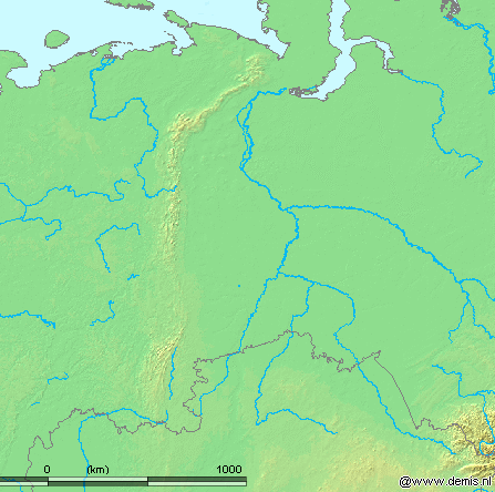 Ural Mountains